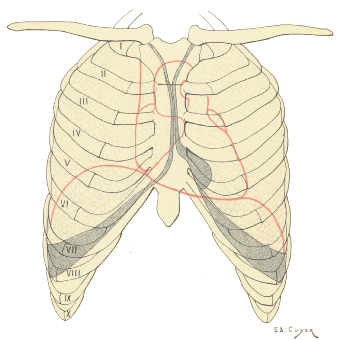 Projection on the thoracic cage of the heart, the lungs and the diaphragm.